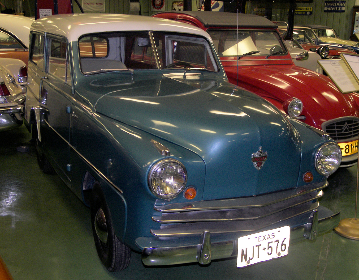 A 1950 Crosley station wagon on display at the Central Texas Museum of Automotive History in Rosanky, Texas, United States.